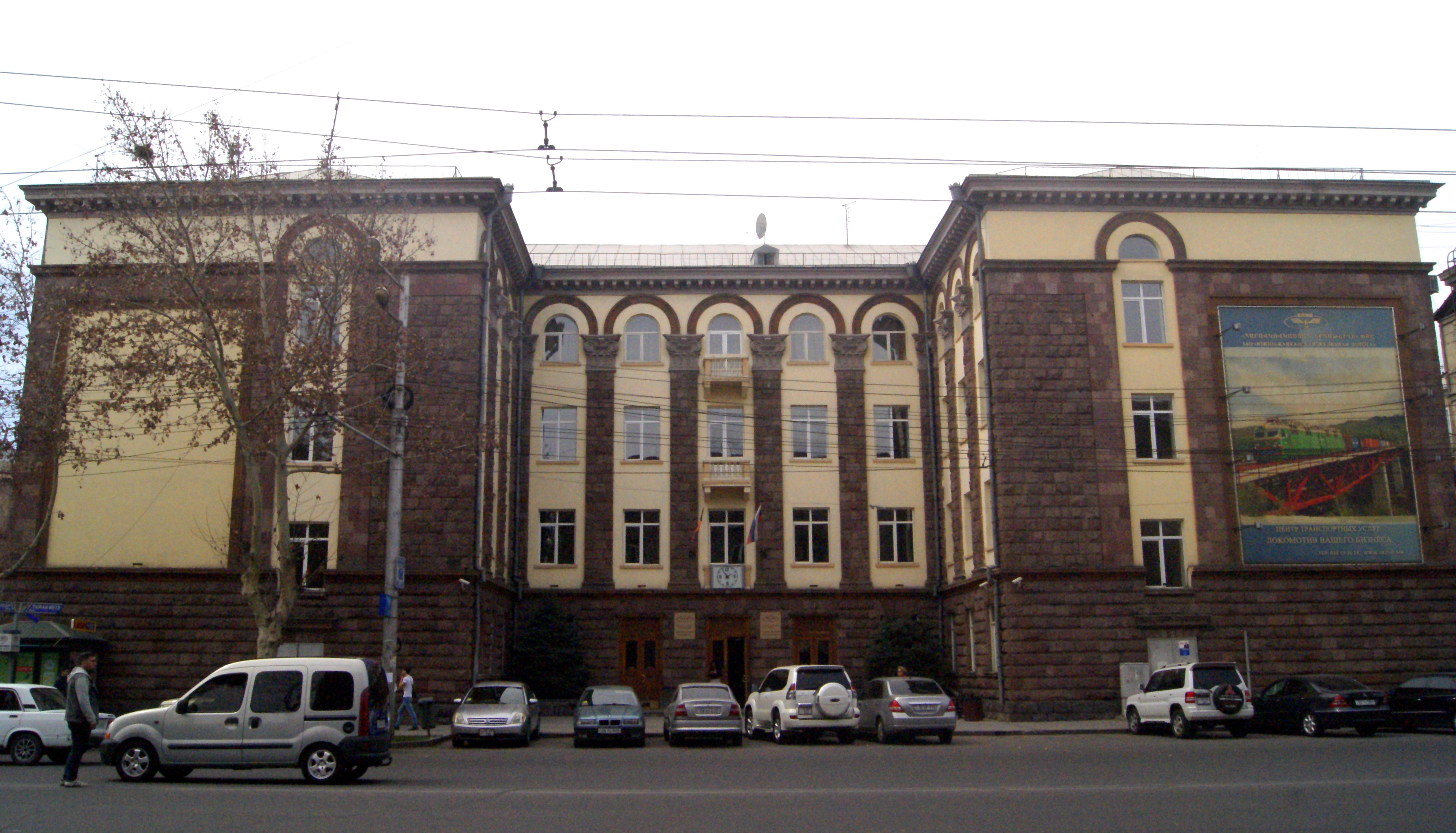 South Caucasus Railway, headquarter